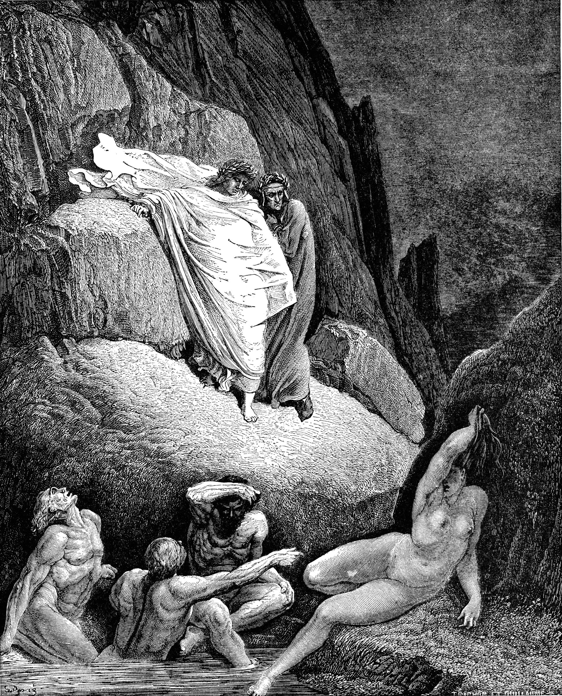 High resolution scan of engraving by Gustave Doré illustrating Canto XVIII of Divine Comedy, Inferno, by Dante Alighieri. Caption: Virgil shows Dante the Shade of Thaïs